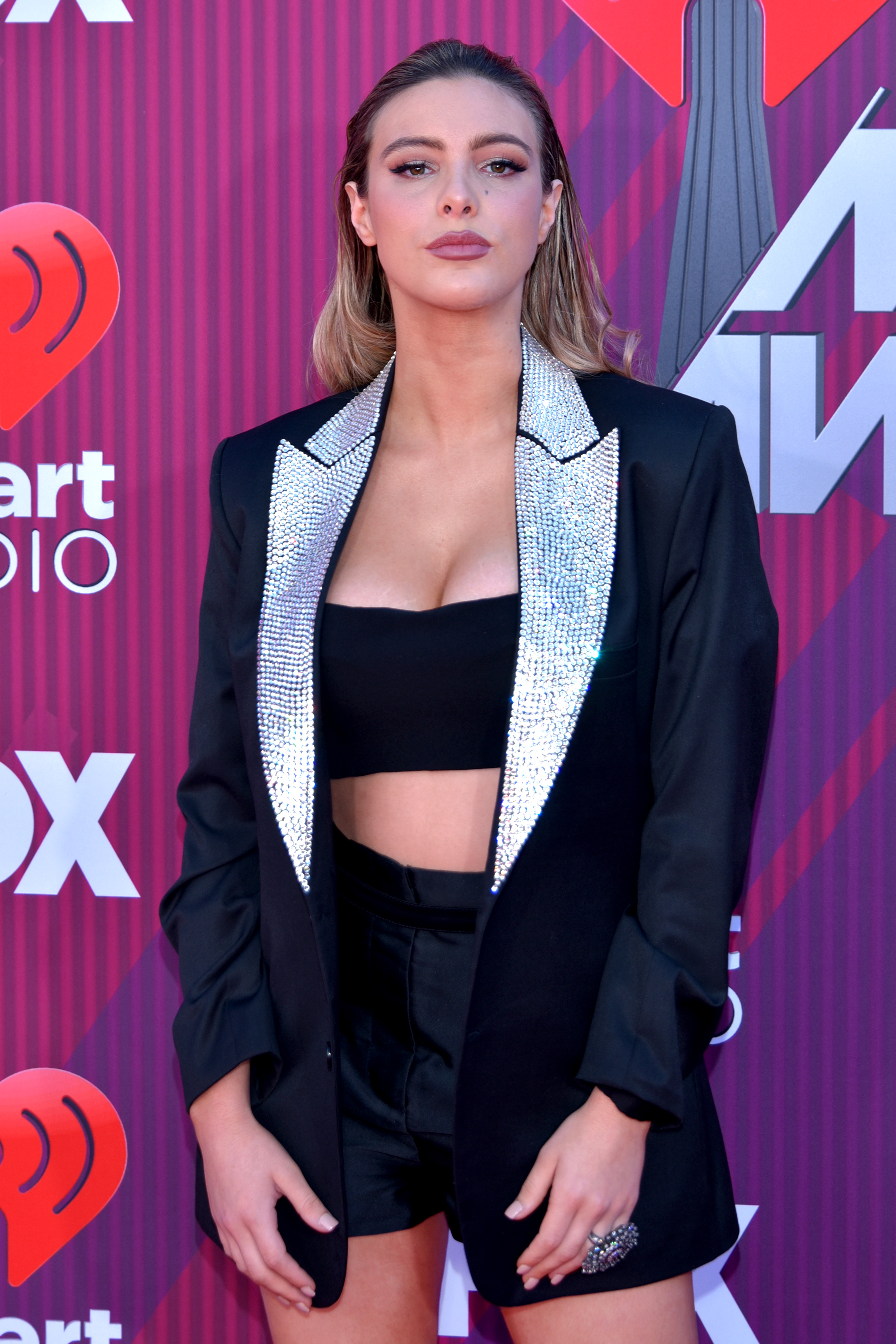 Lele Pons attends the 2019 iHeartRadio Music Awards in Los Angeles, California - Photo by Glenn Francis of